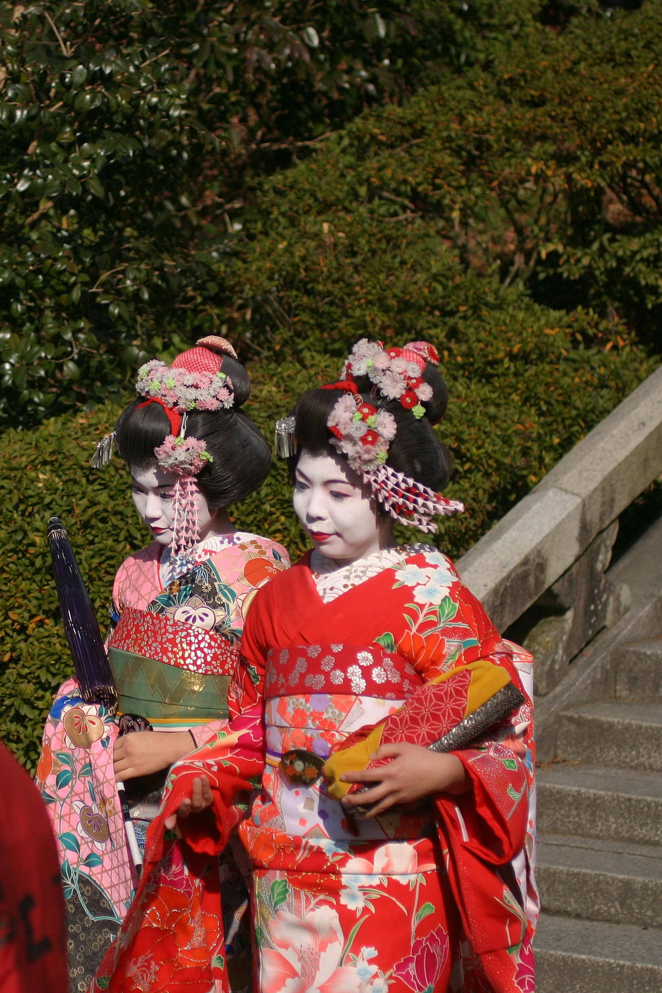 This pair of maiko henshin, tourists dressed like apprentice geisha, were leaving Kyiomizu-dera just when we showed up. Kyoto, Japan, December 2005